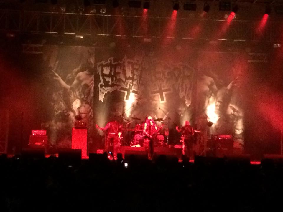 Belphegor live in BOA 2015